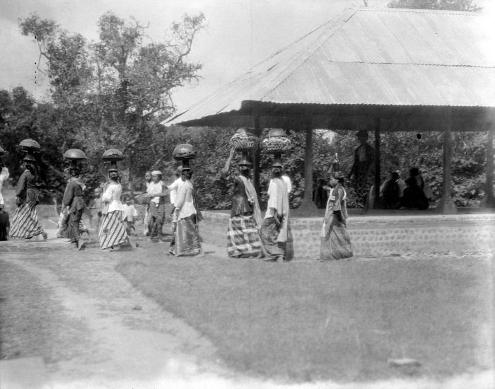 Women carrying offerings at the pura of Lingsar